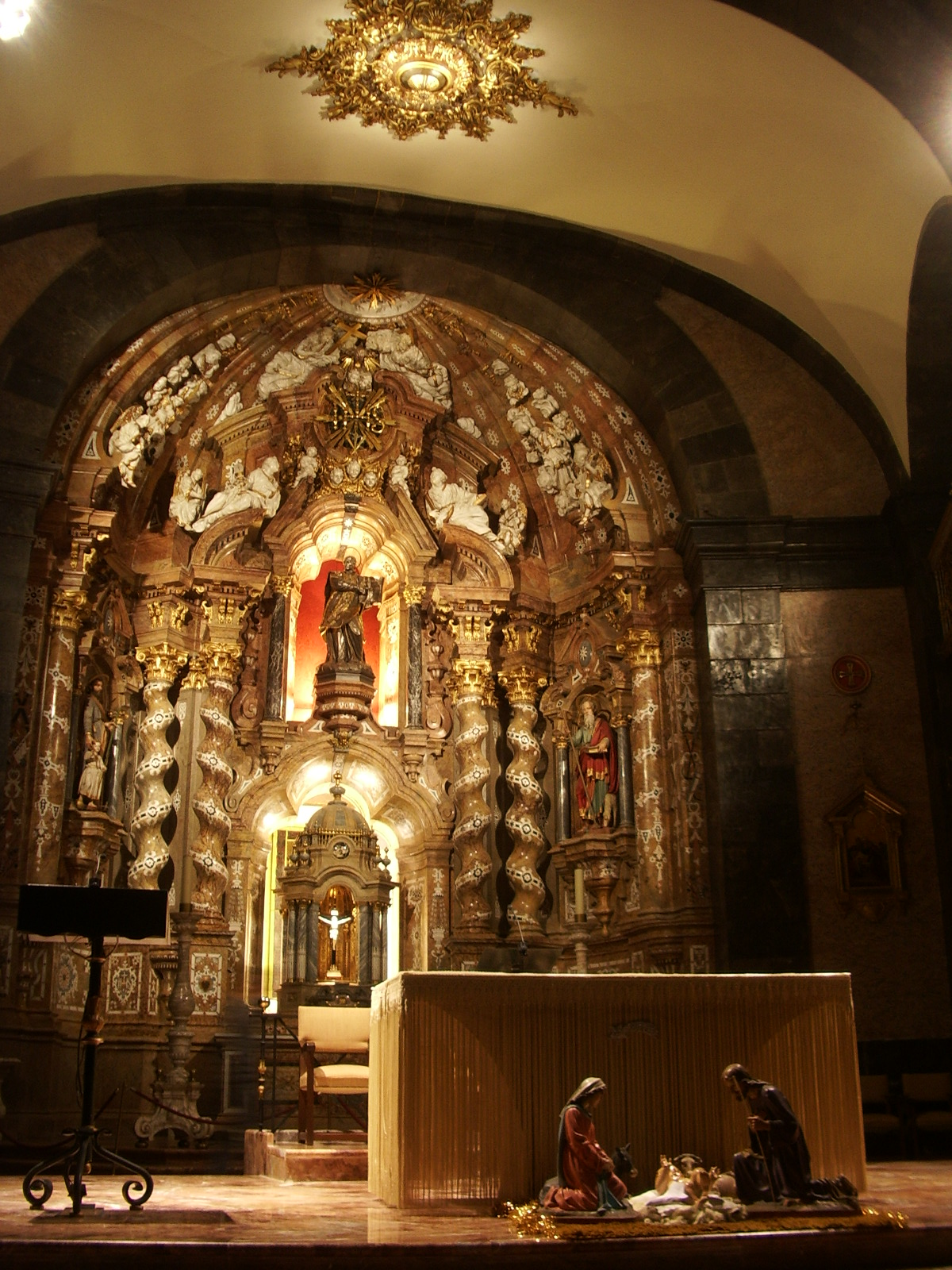 Main Altar of the Sanctuary of Loiola, Azpeitia, Guipuscoa, Basque Country